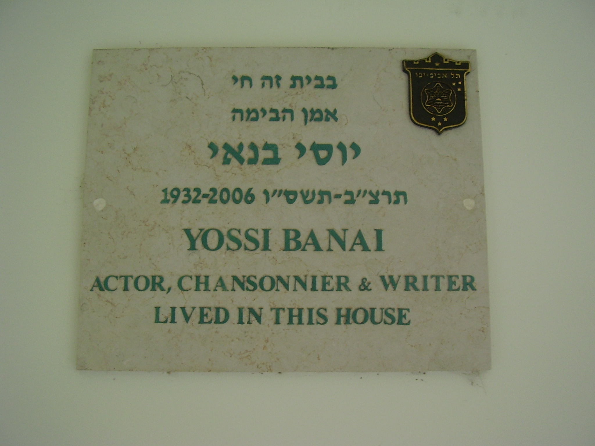 memorial plaque on the actor yossi banai house in tel aviv לוחית זיכרון על ביתו של השחקן יוסי בנאי ברח' שדרות ח"ן 29 בתל אביב